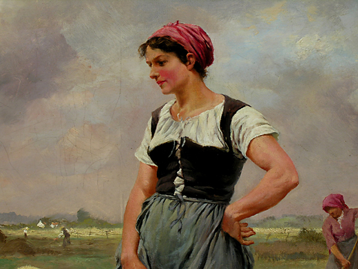 Detail of The Haymakers